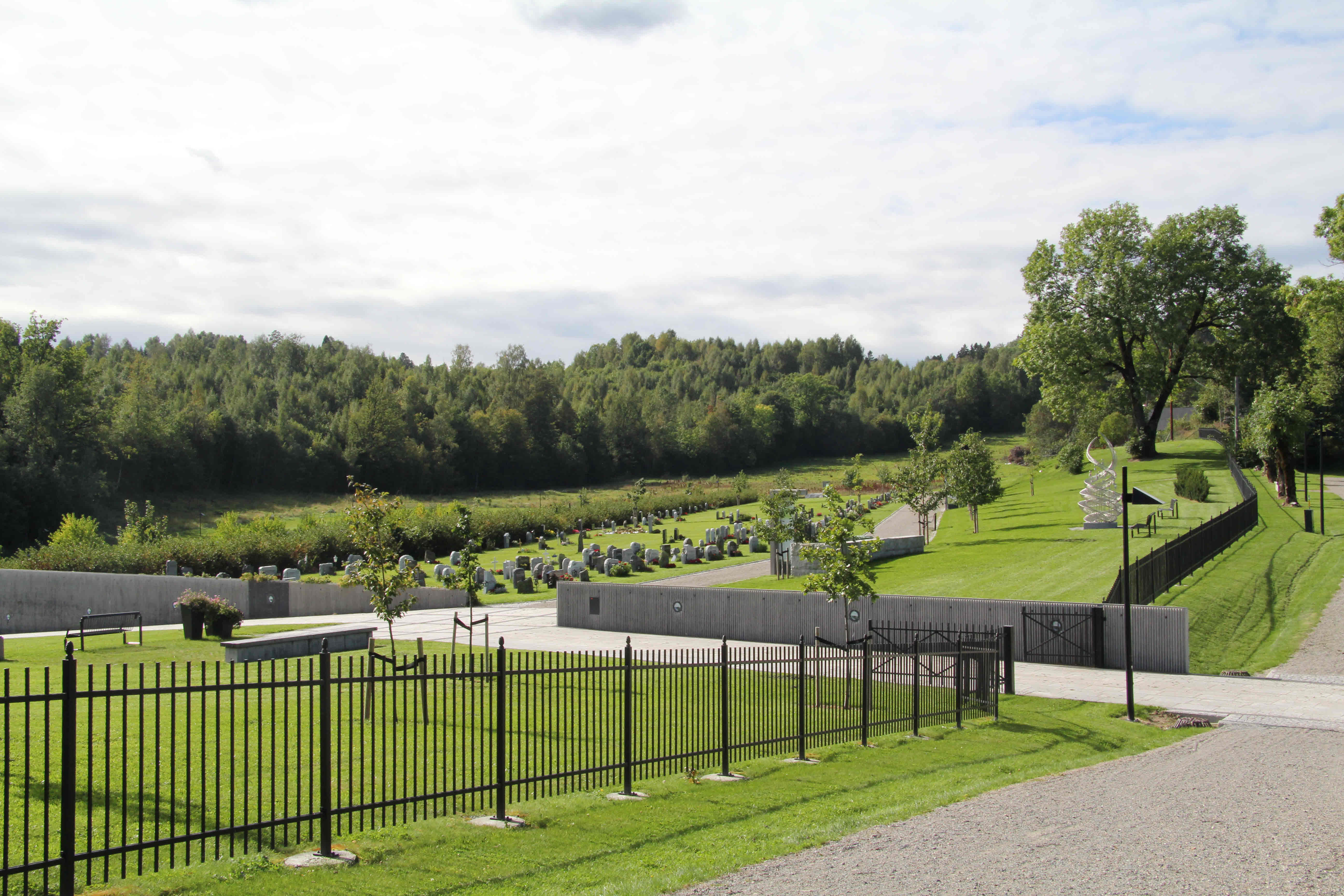 Østenstad churchyard - entrance towards north and Østenstad kirke.